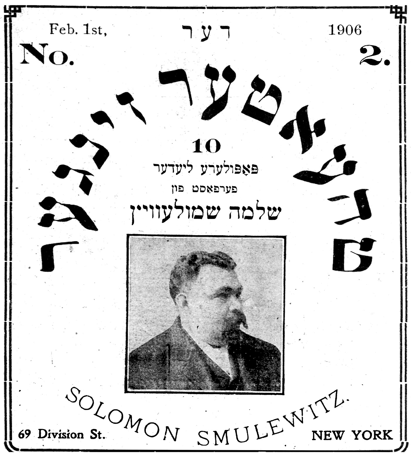 "The Theater Singer," annual magazine published by Solomon Smulewitz